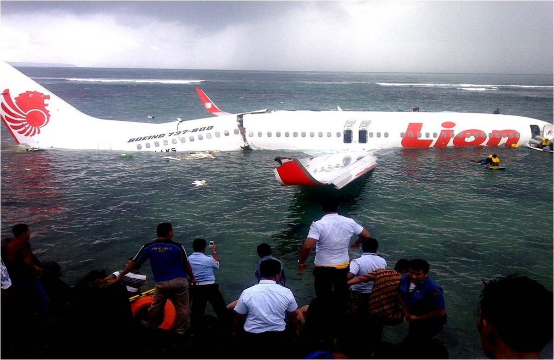 Lion Air Flight 904 as it came to rest short of the runway at Ngurah Rai International Airport, Bali, Indonesia, on 13 April 2013.